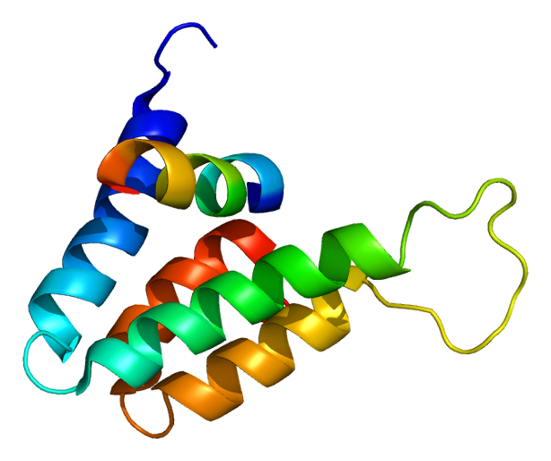 Structure of the SIN3B protein. Based on PyMOL rendering of PDB 1e91.